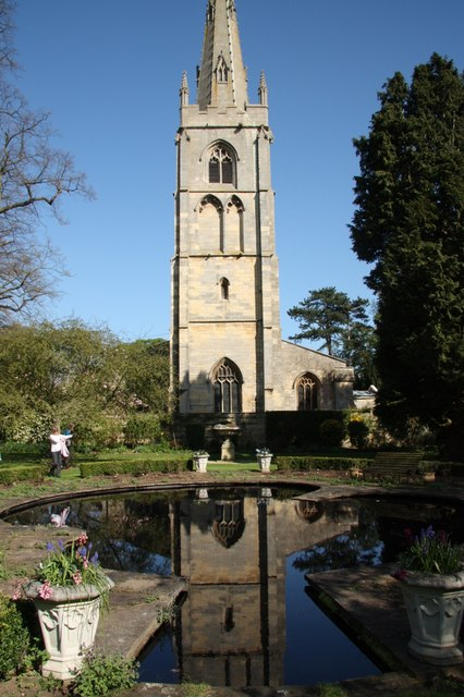 Reflecting Pool Pool in the gardens of Leadenham House deliberately designed to reflect the tower of St.Swithun's church